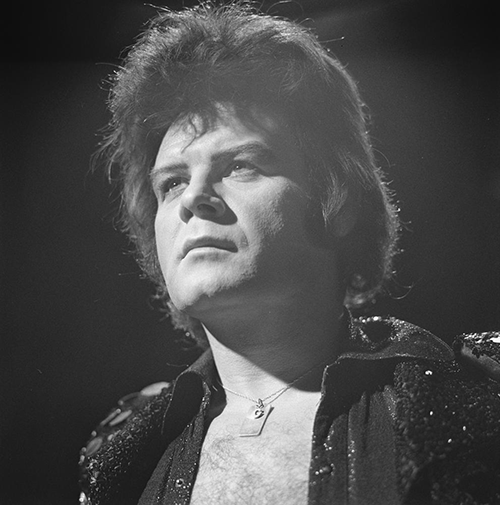 Gary Glitter in AVRO's TopPop (Dutch television show) in 1973